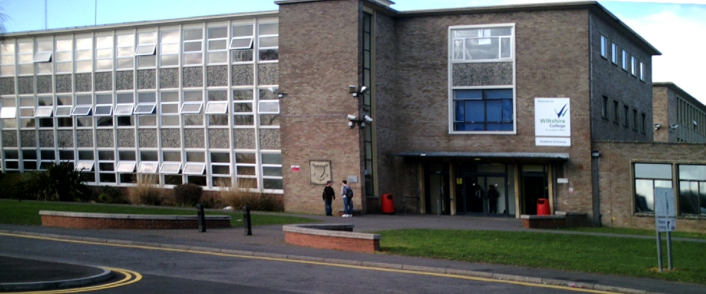 Main Building, Wiltshire College, Trowbridge, Wiltshire